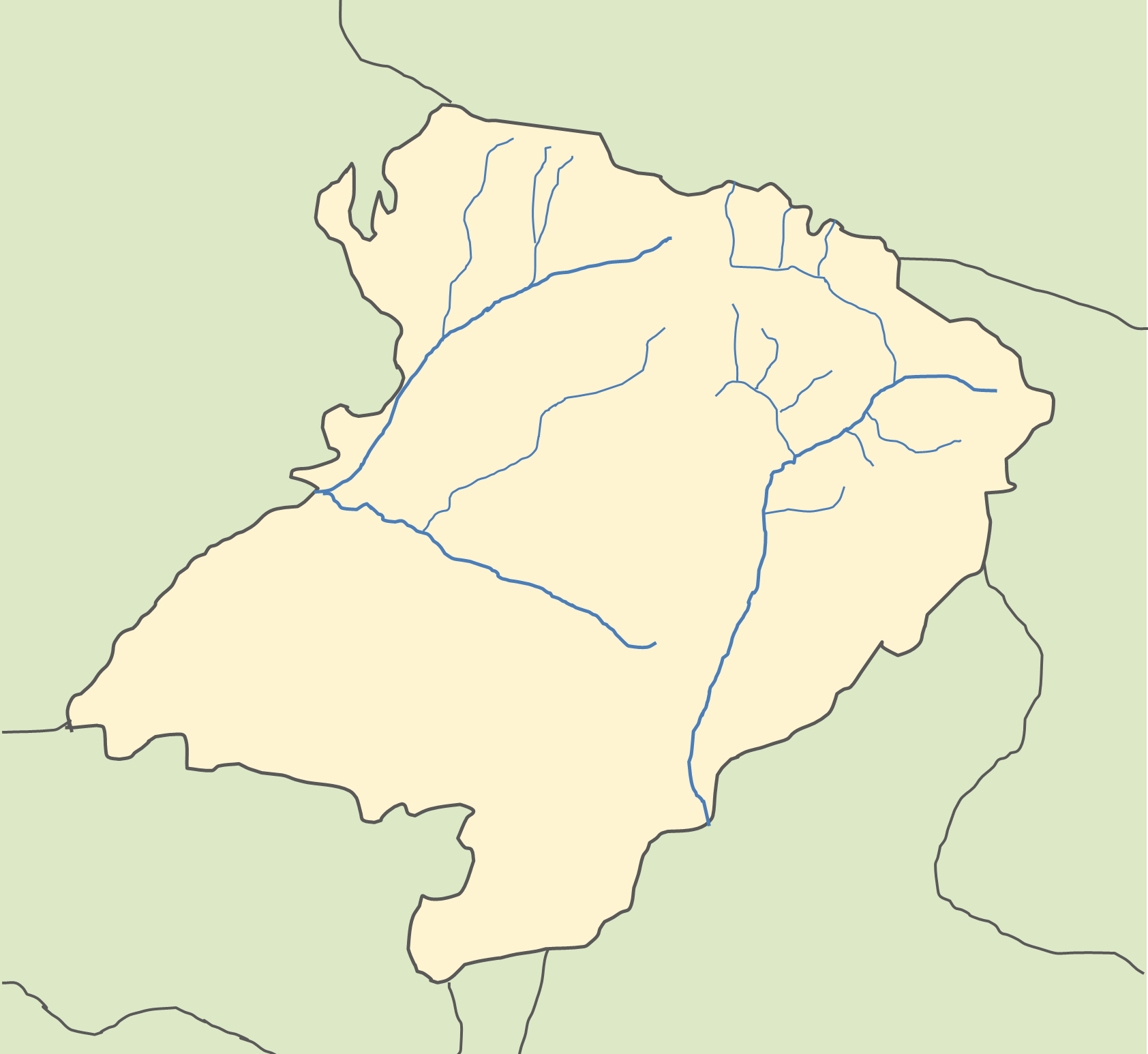 Map of Ismayilli Rayon. Azerbaijan